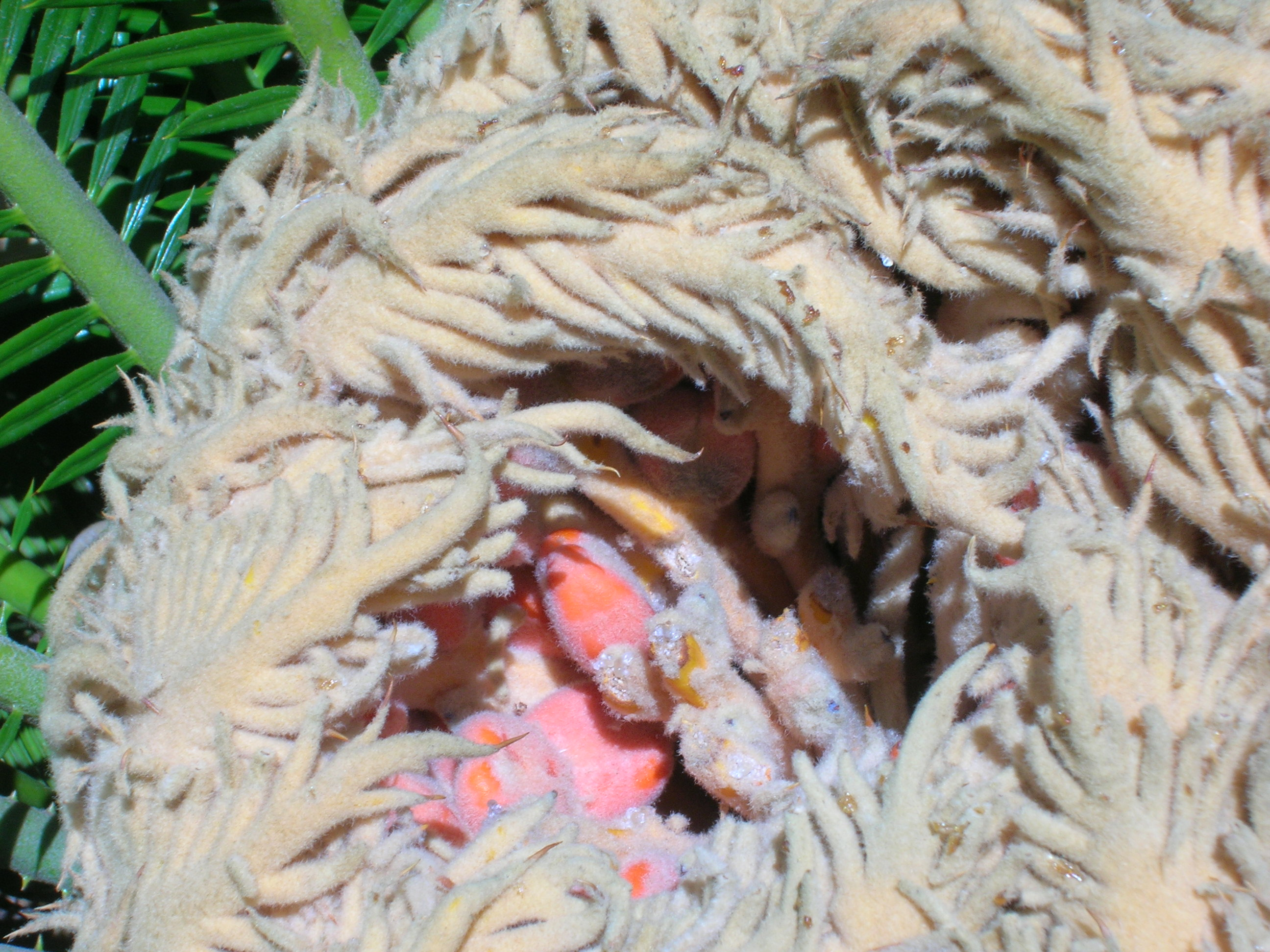 Female plant of Cycas revoluta (sago cycad) As with other cycads, it is dioecious, with the males bearing cones and the females bearing groups of megasporophylls. Accessed 18 Jan 2010 i040707 247